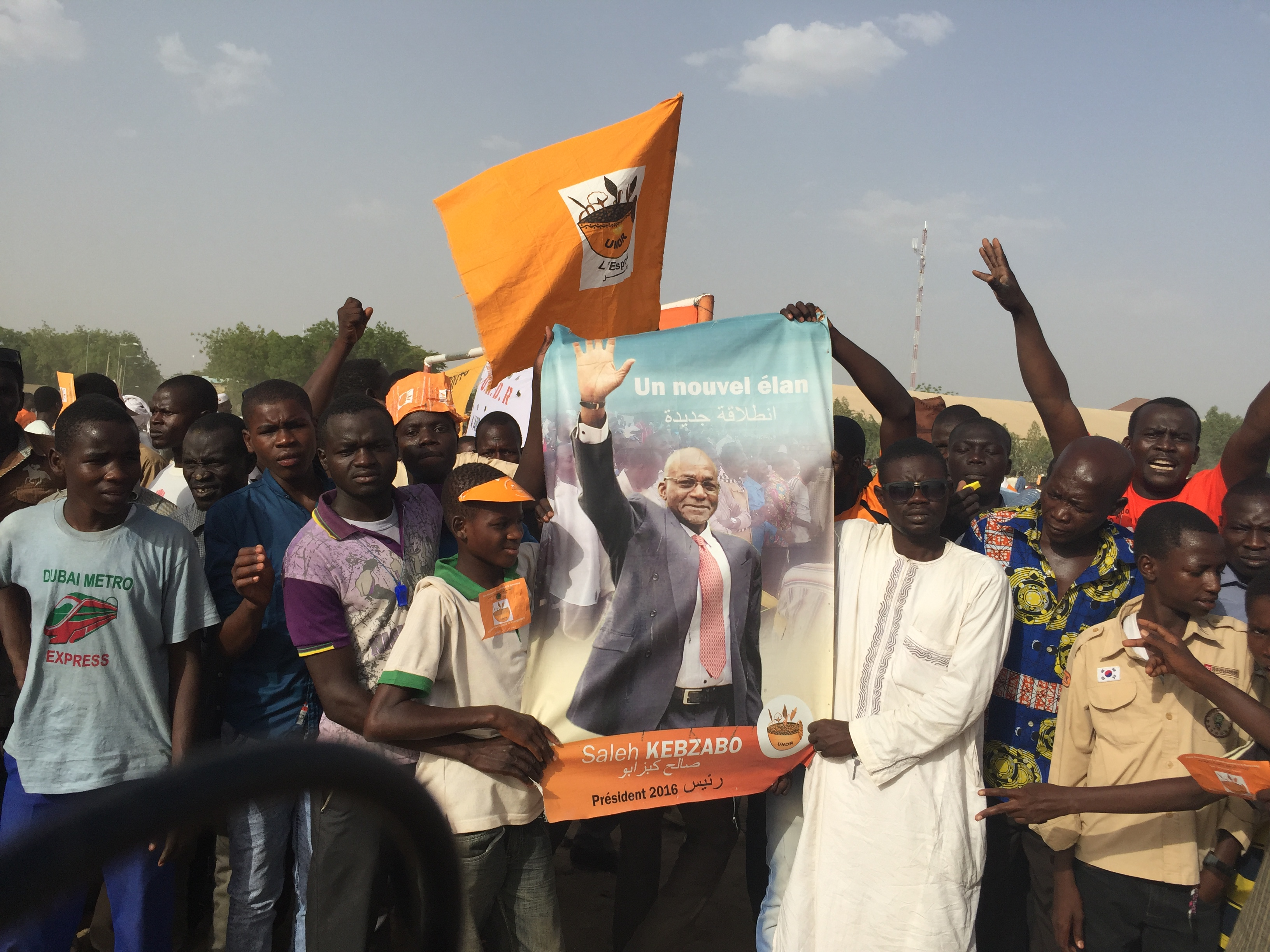 Supporters of Chadian opponent Saleh Kebzabo during his last meeting, Place of the Nation, Ndjamena, Chad, 8 April 2016.